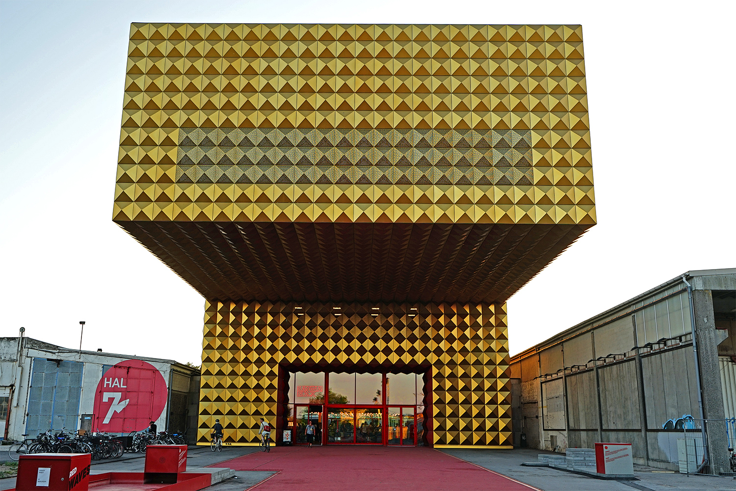 Museum Ragnarock, Roskilde, Denmark - Museum for pop, rock and youth subculture - established 2016